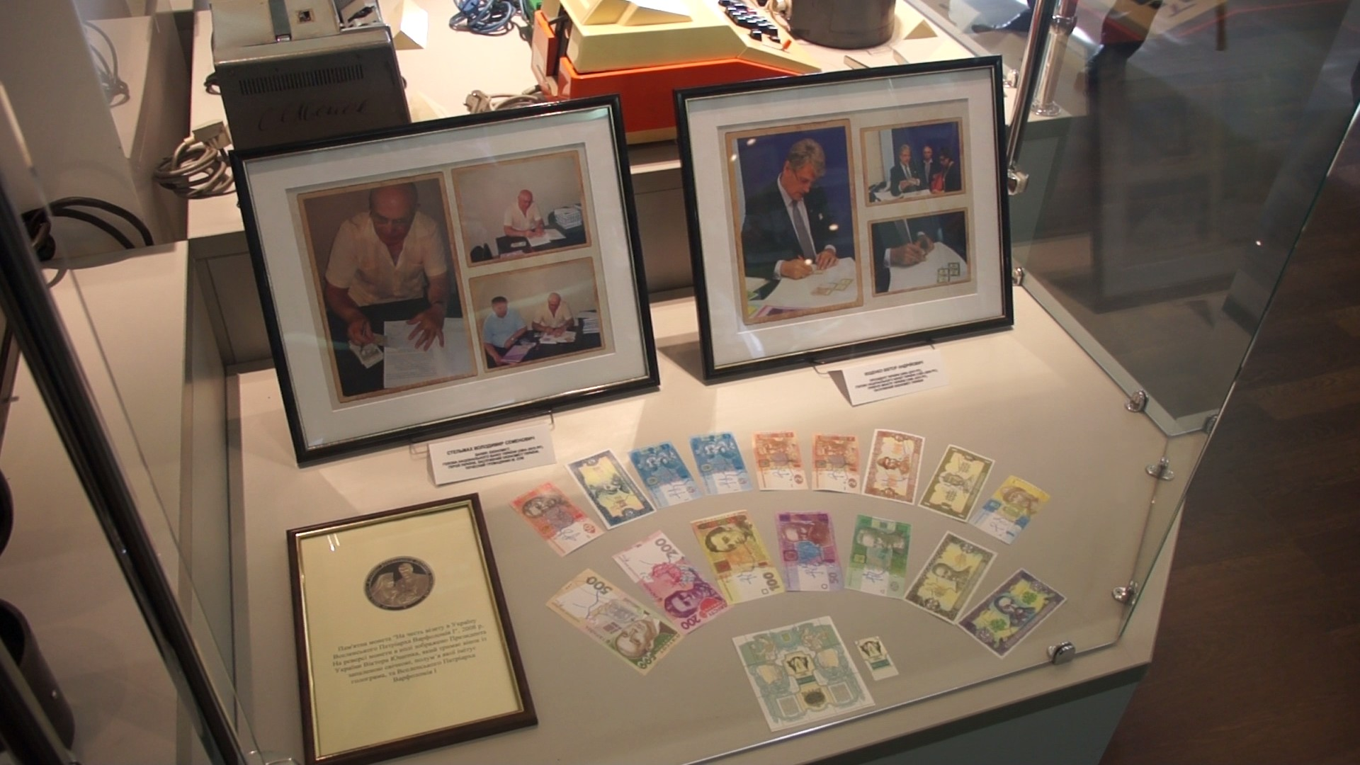 Exposition at the museum given to well-known personalities of the Sumy oblast in finance and banking